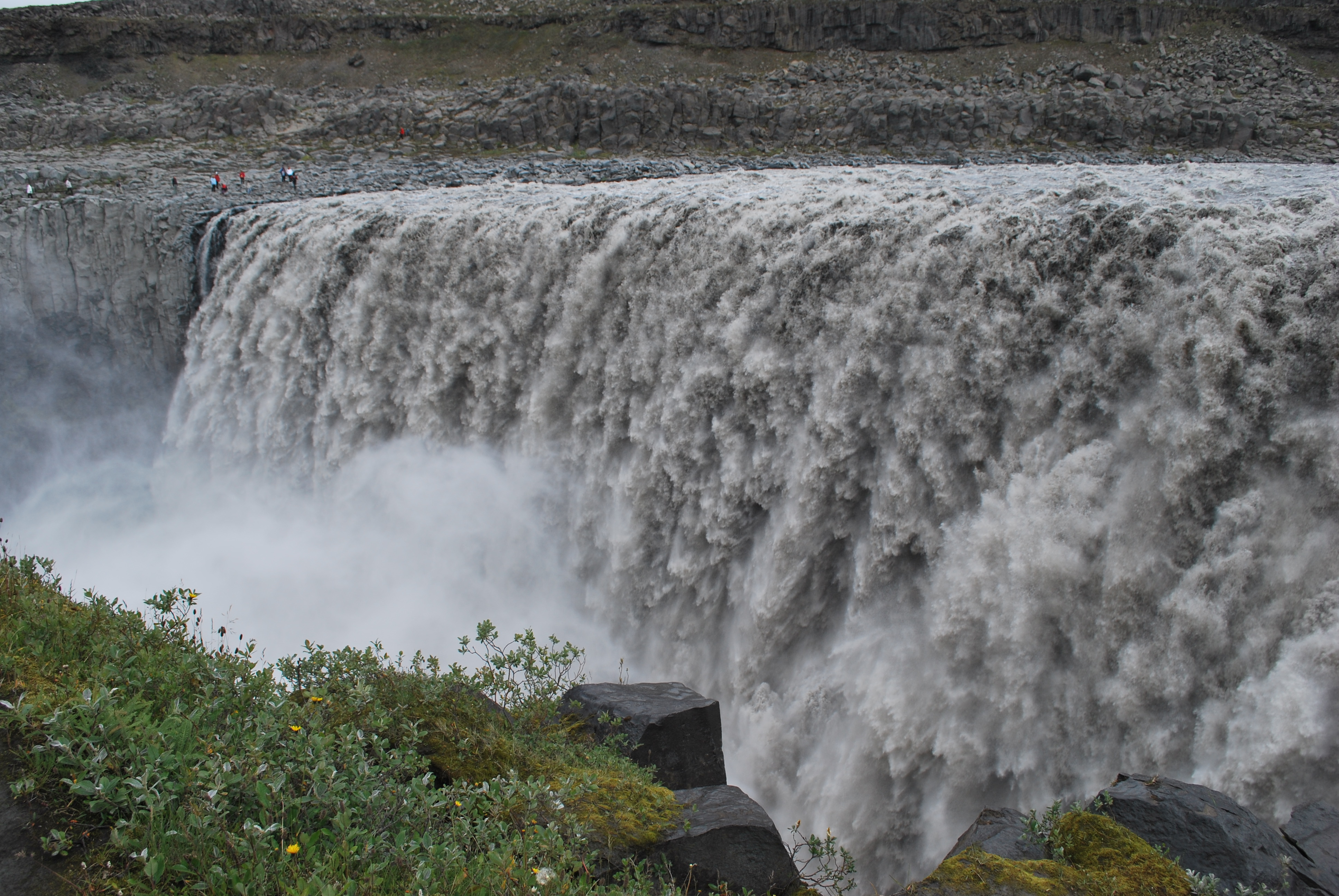 Dettifoss waterfall, Iceland